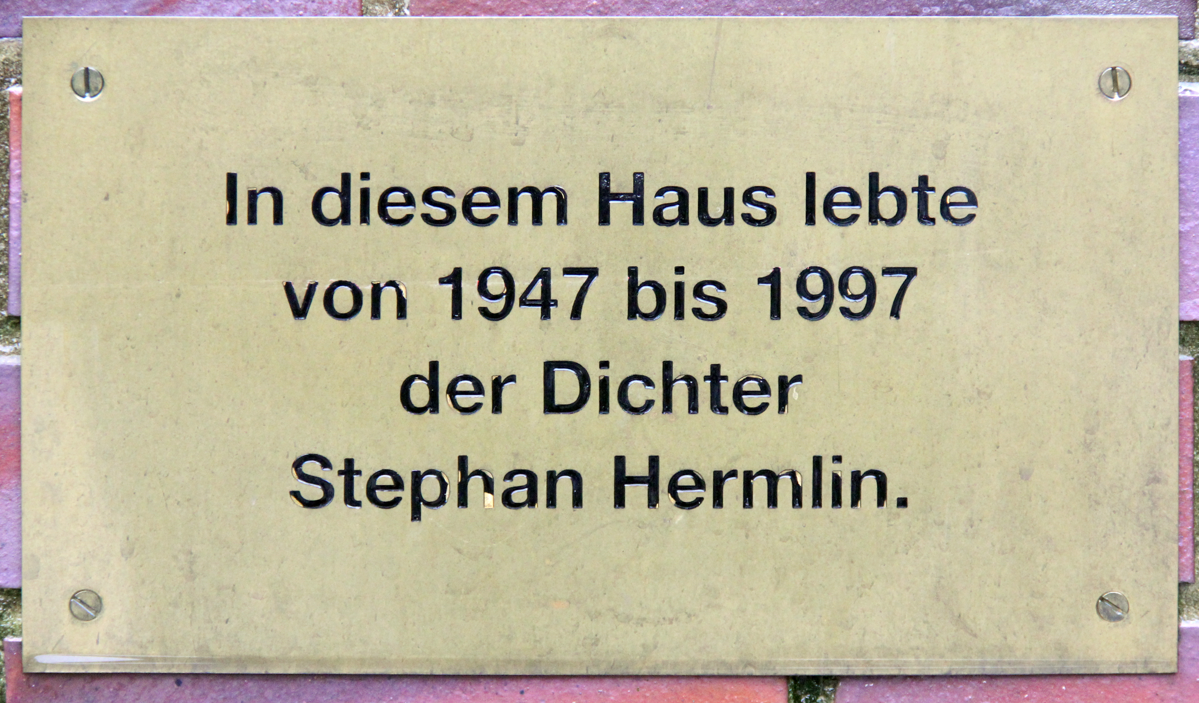 Memorial plaque, Stephan Hermlin, Hermann-Hesse-Straße 39, Berlin-Niederschönhausen, Germany